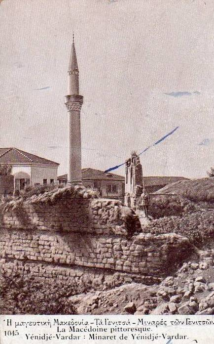 Mosque minare Giannitsa